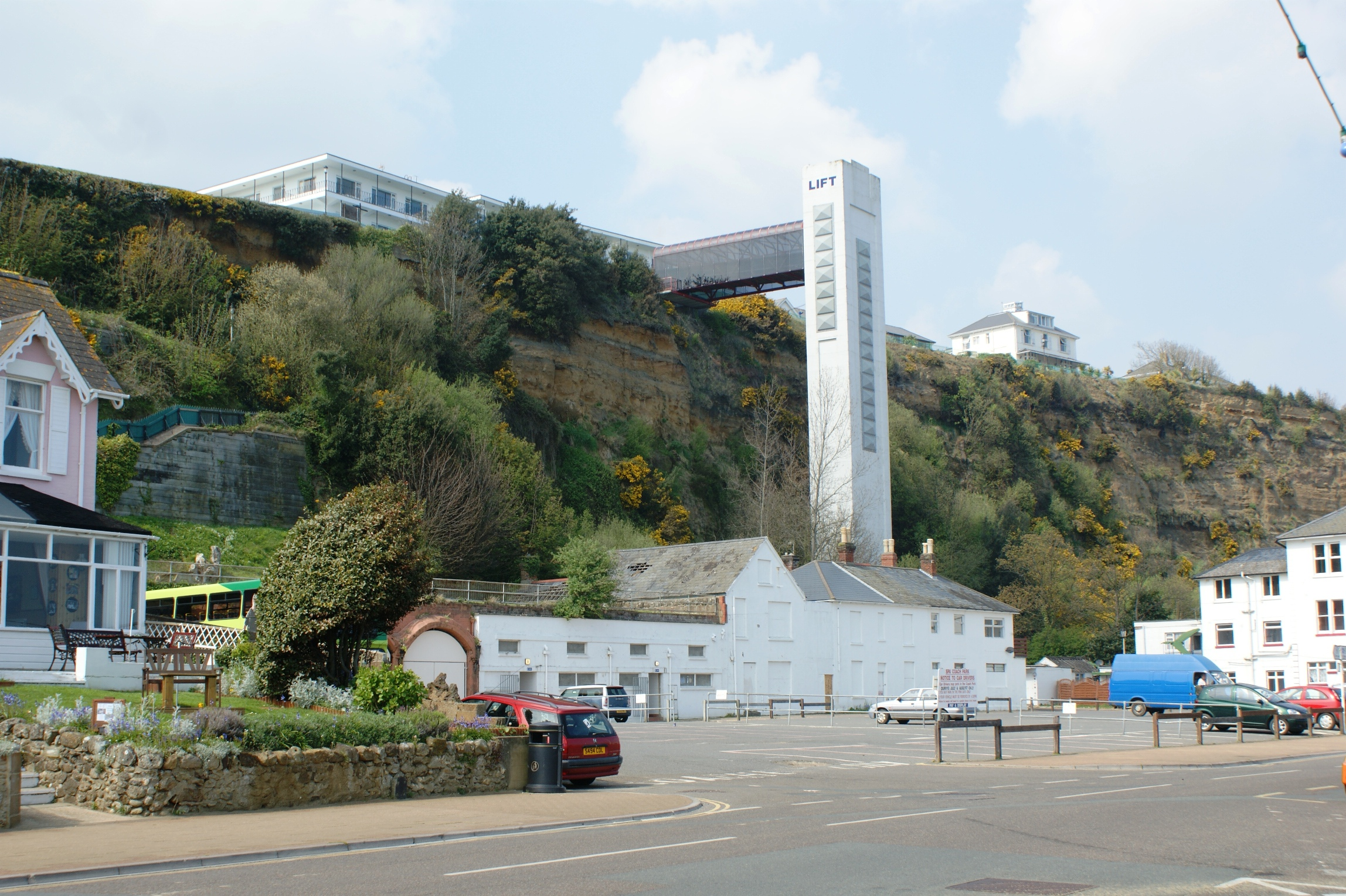 The Cliff lift, leading down to the beach at Shanklin on the Isle of Wight.